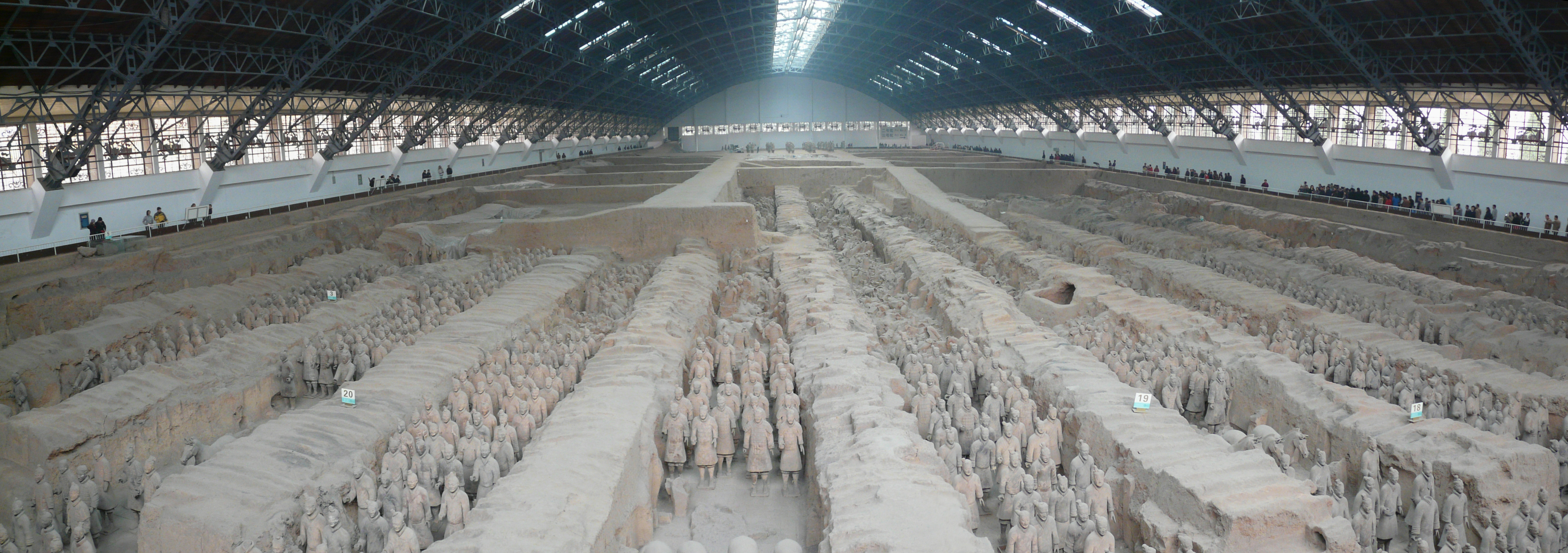 The panoramic photography of Pit #1 in Mausoleum of the First Qin Emperor, a World Heritage Site.